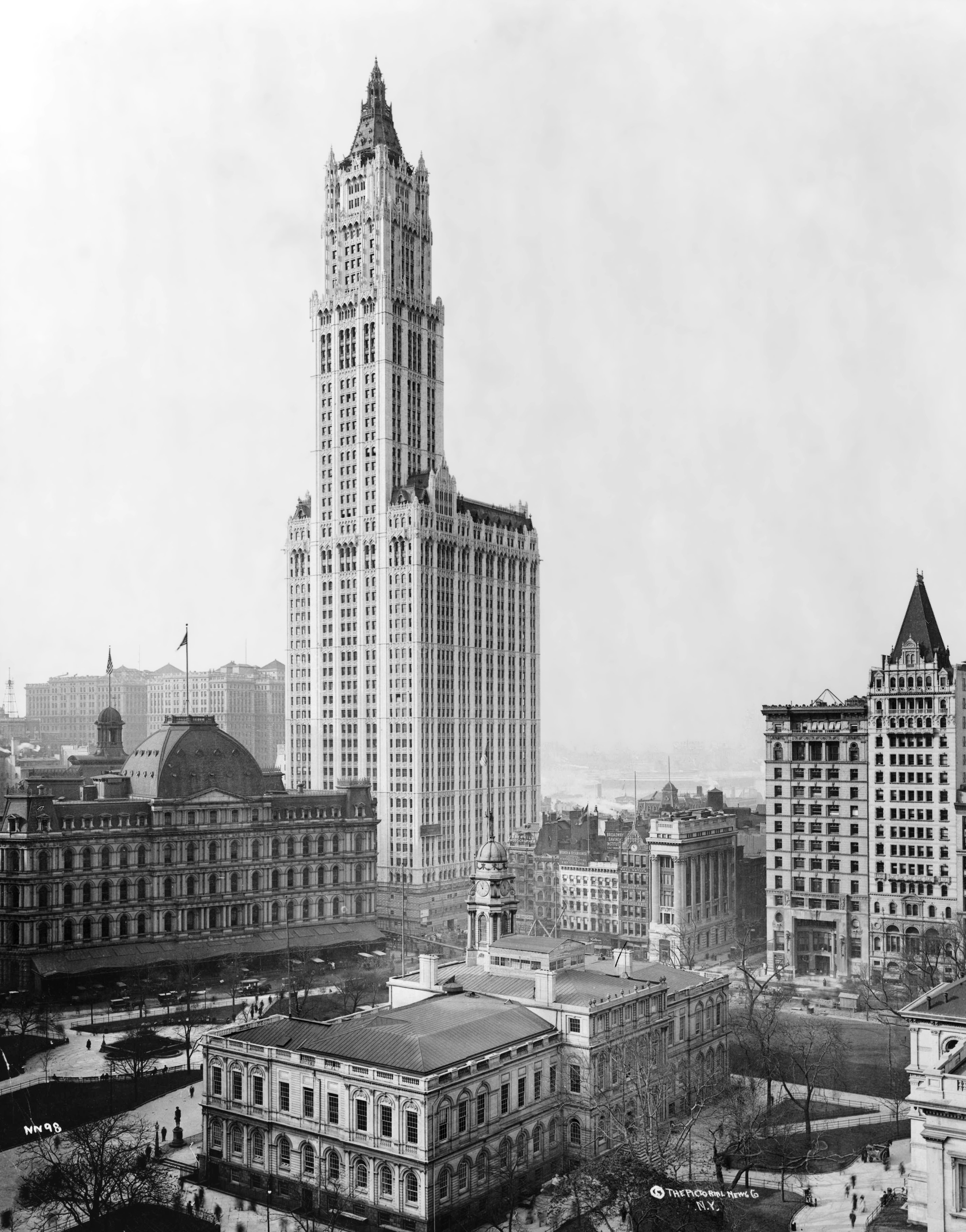 View of Woolworth Building and surrounding buildings, New York City.